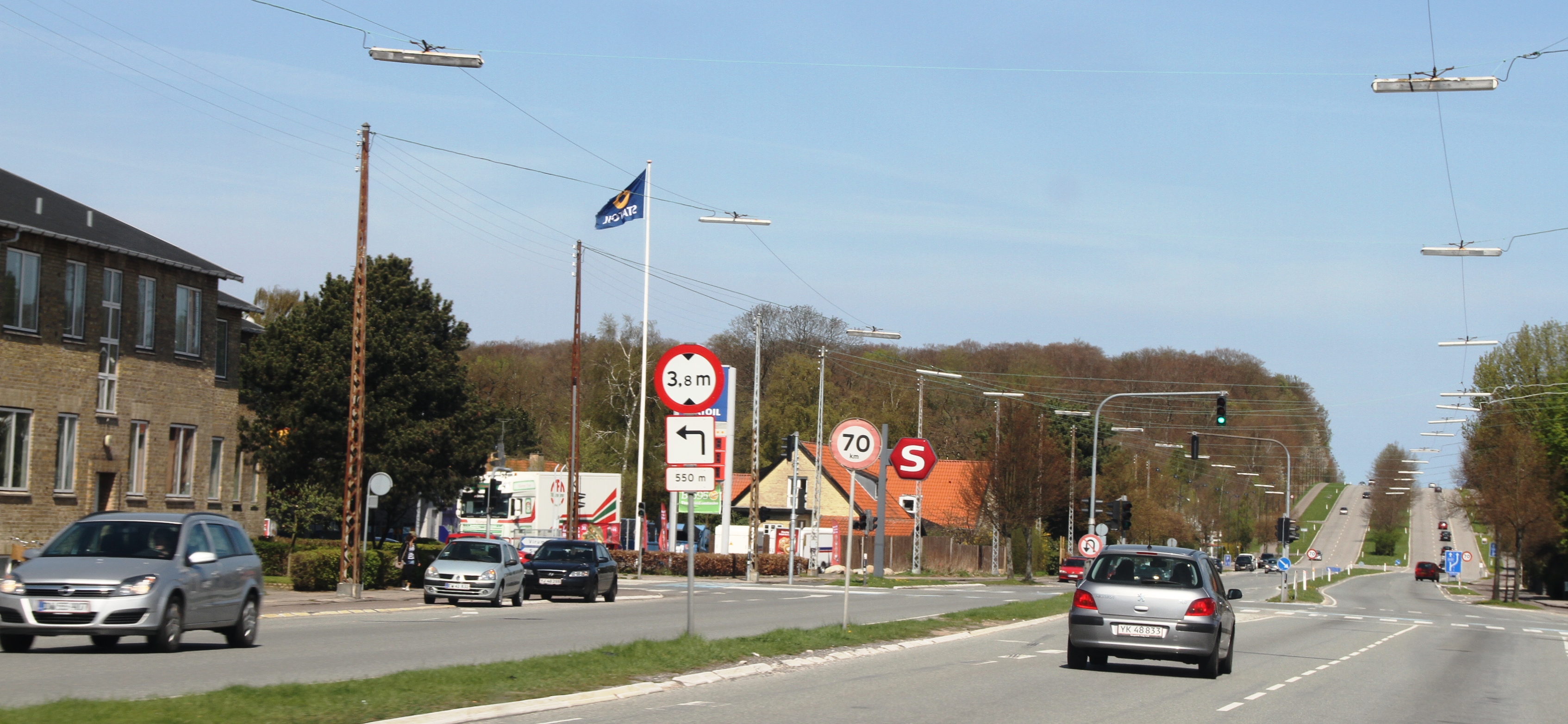 Image from the suburb of Virum in the municipality of Lyngby-Taarbæk, Copenhagen, Denmark